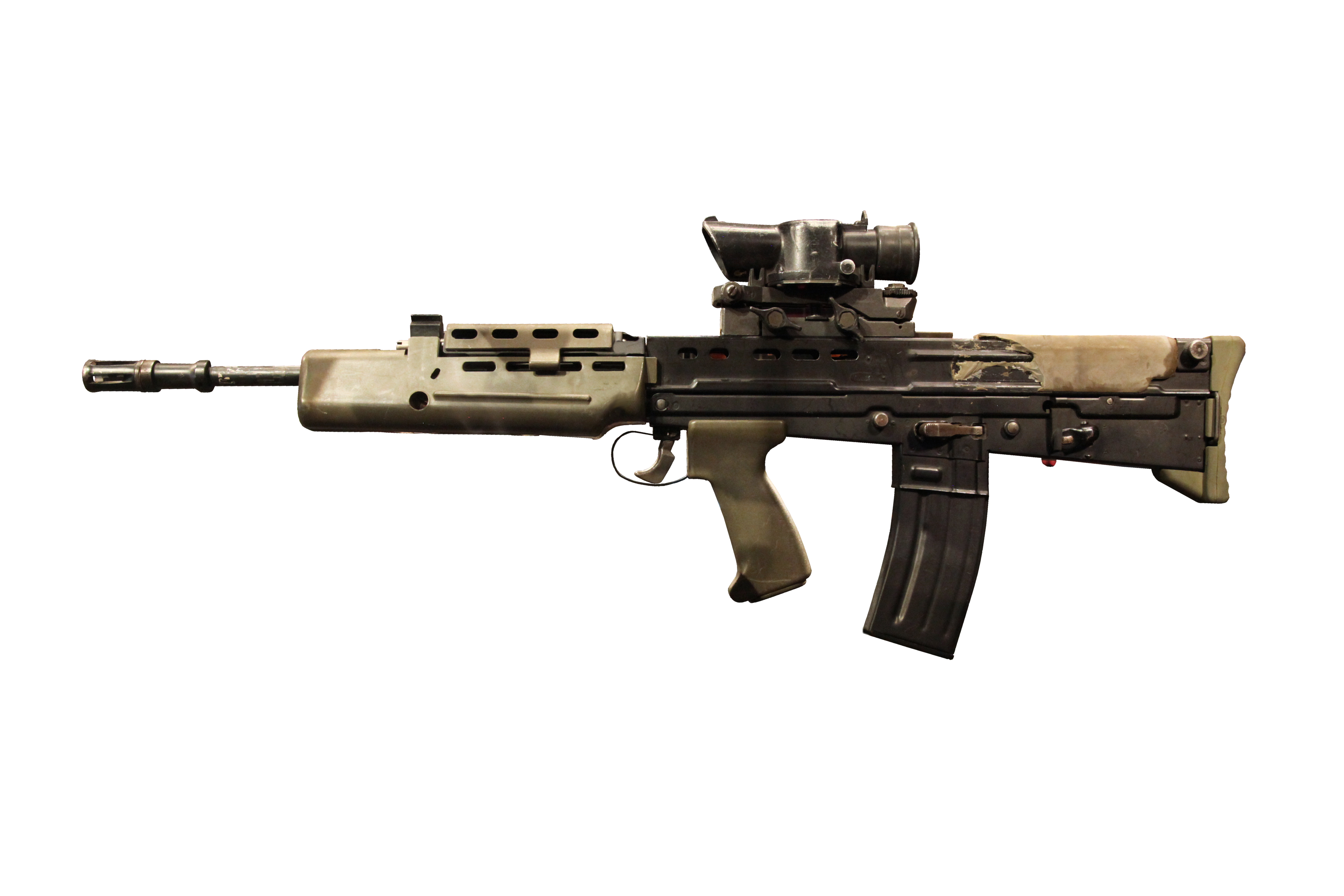 L85A1 rifle. On display at the Parachute Regiment exhibition of the Imperial War Museum in Duxford.